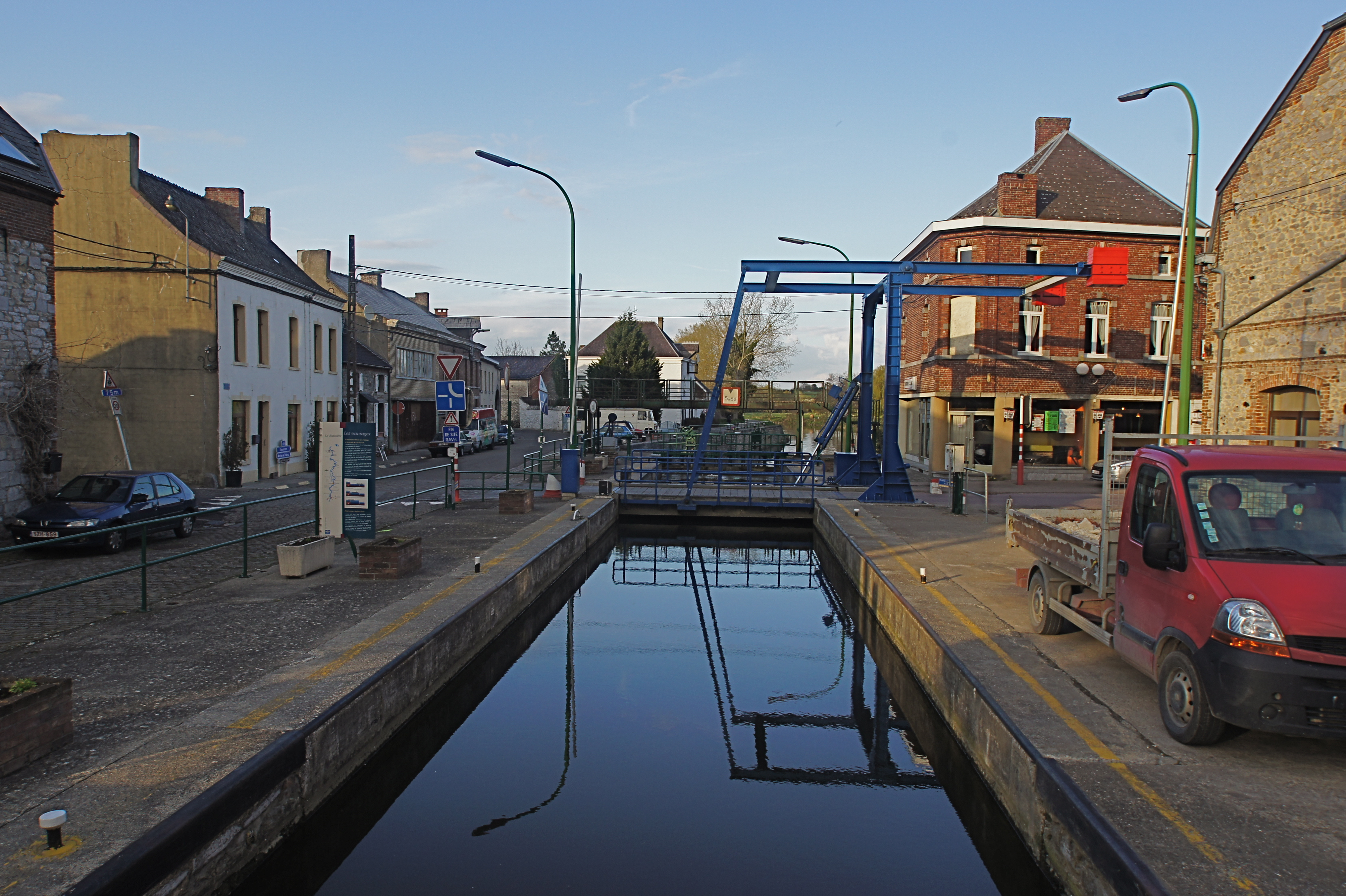 Labuissière, Belgium: Lock and bridge over the river Sambre